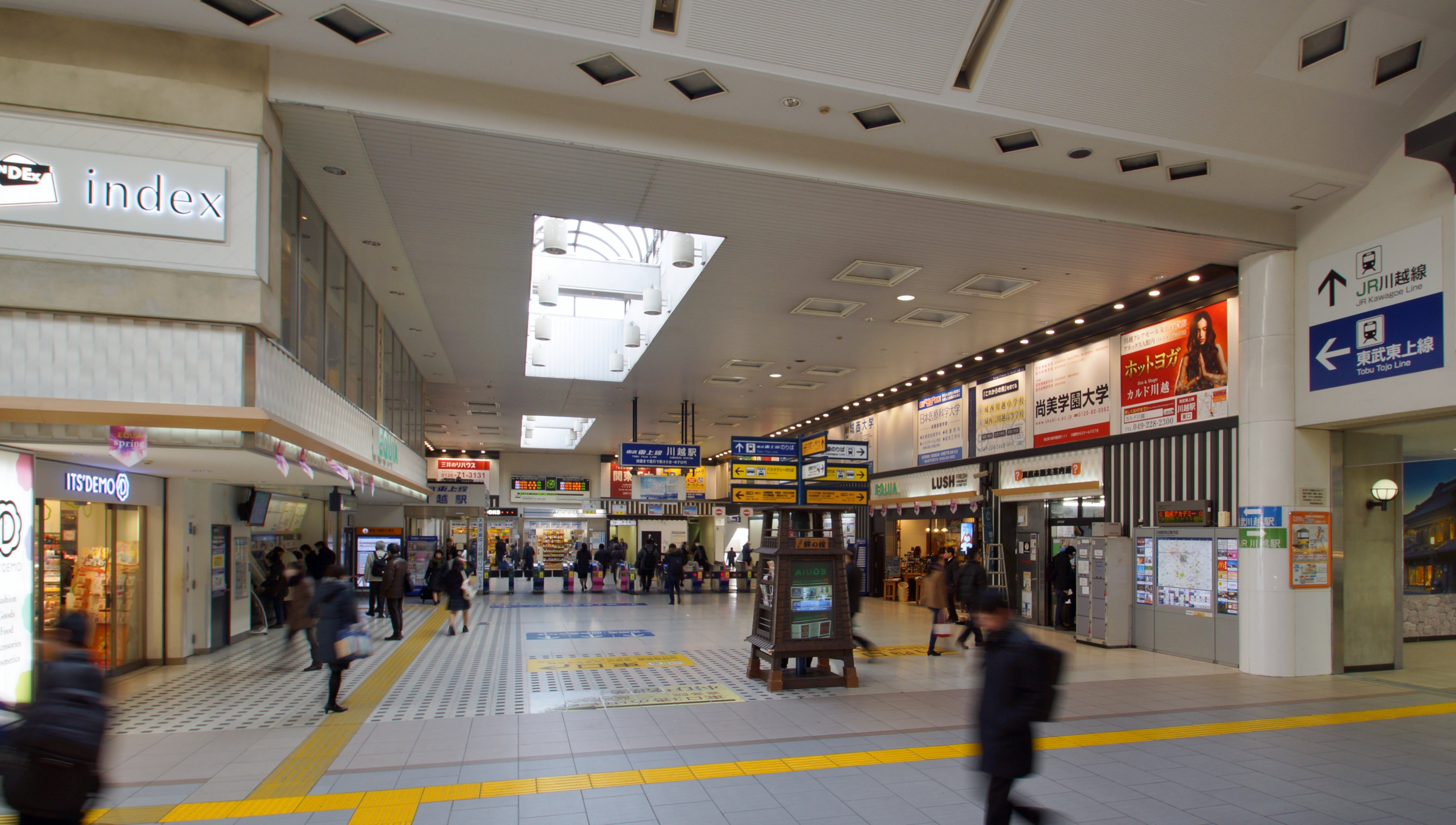 The concourse on the Tobu side of Kawagoe Station in Saitama Prefecture, Japan